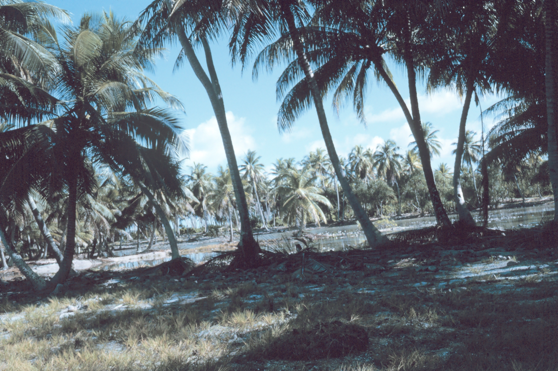 Coconut grove on Fanning Island (Tabuaeran), Line Islands, Pacific Ocean